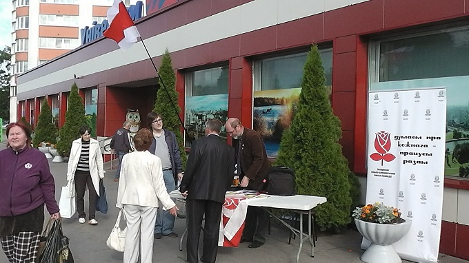 Агітацыйны пікет у падтрымку кандыдата ў дэпутаты, сябра ЦК БСДП Алега Трусава, 2016г.